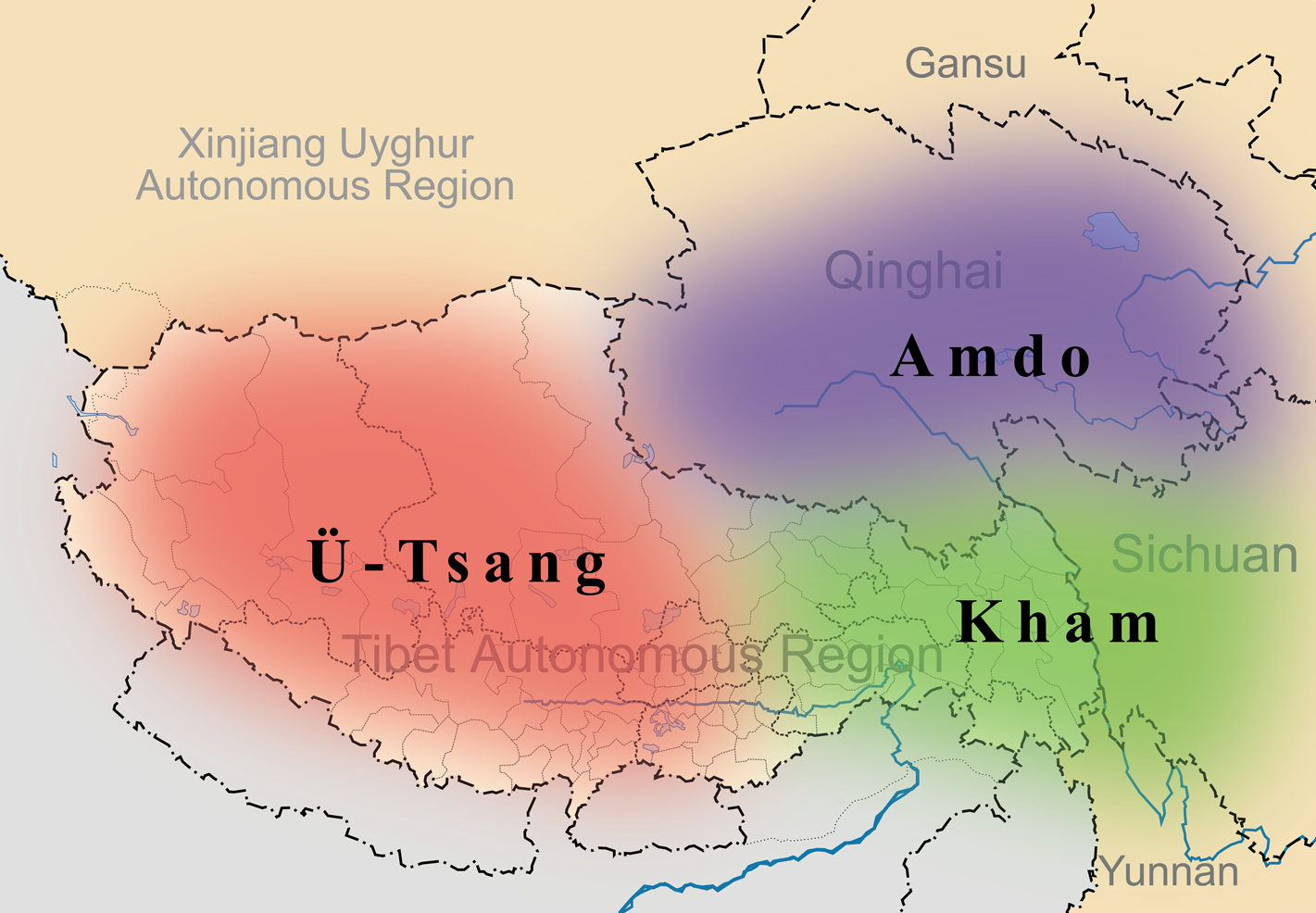 A simple map of the three traditional provinces of Tibet overlaid on a map of modern provincial boundaries of the People's Republic of China.